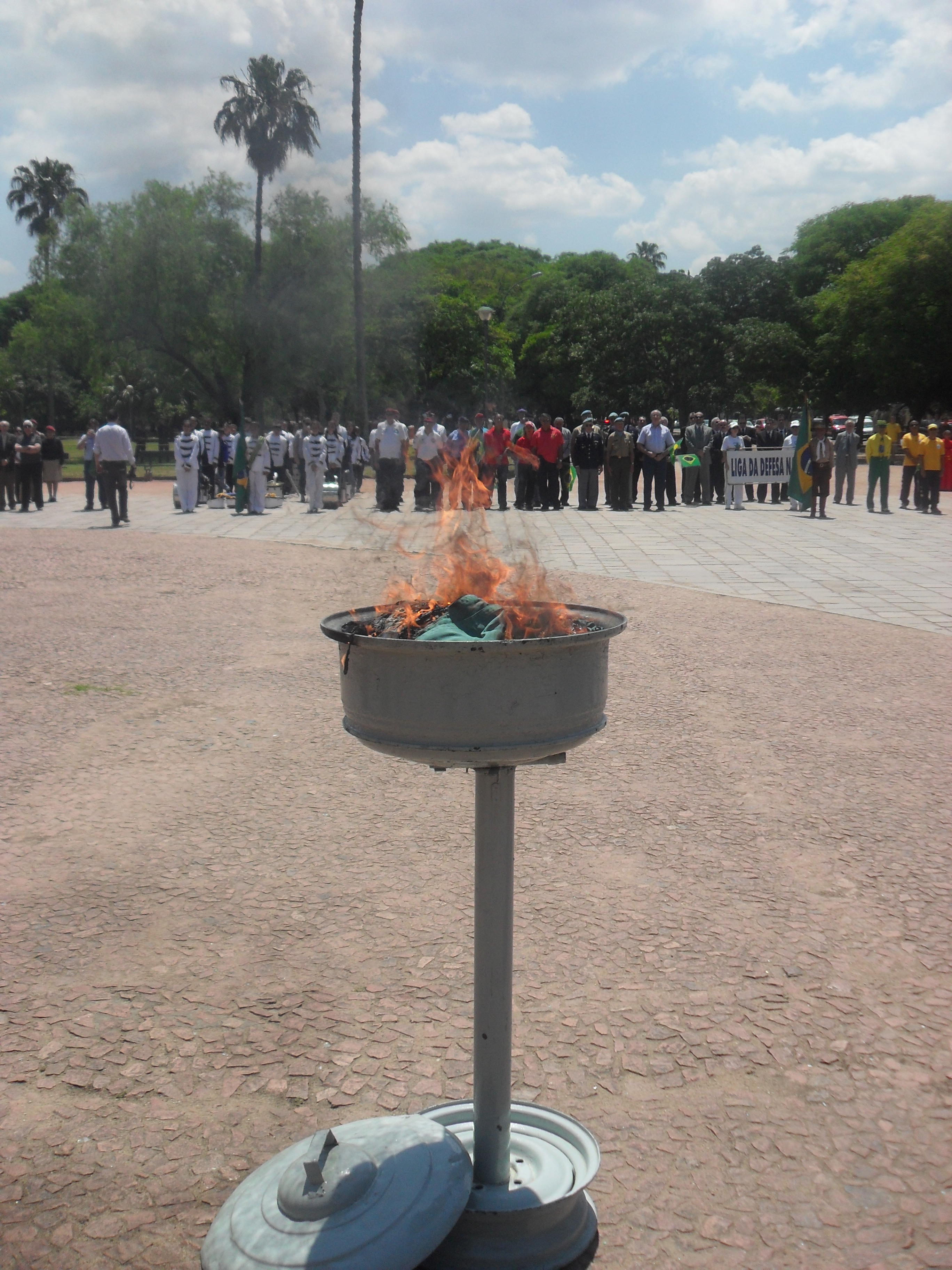 Brazilian Flag Day 2010 in Porto Alegre, Rio Grande do Sul